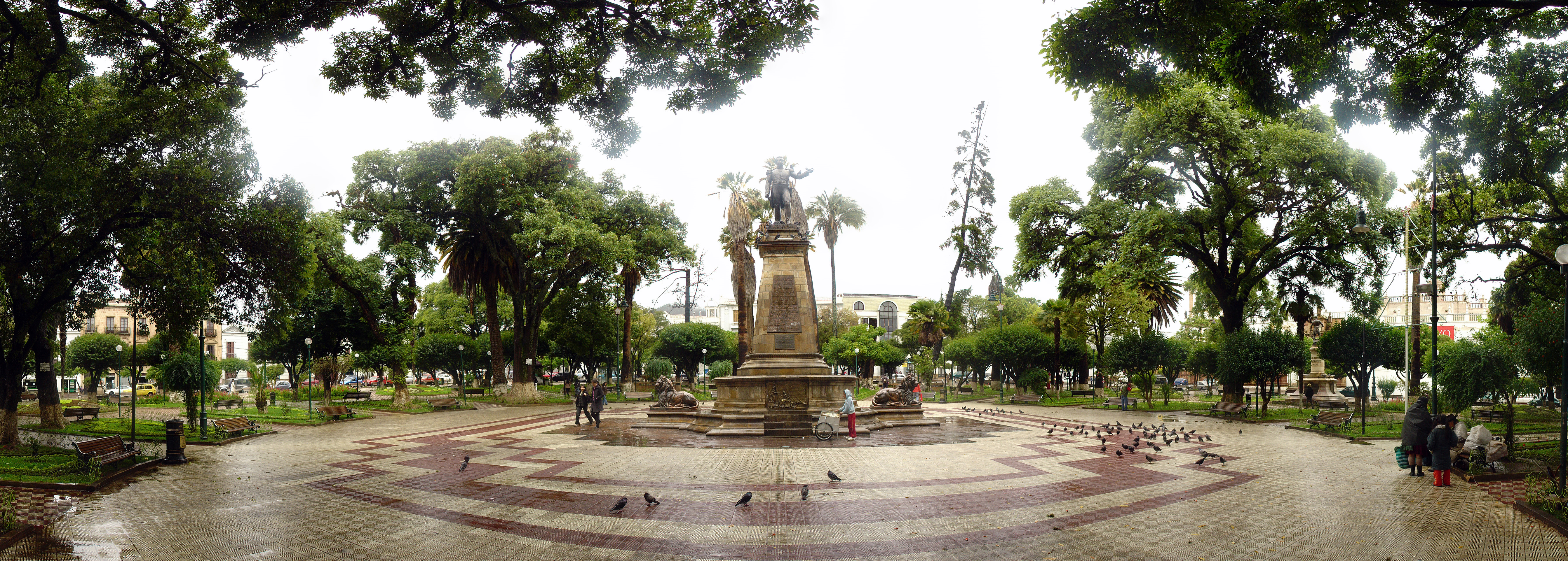 Please, have this description accessible to all by translating it in different languages.